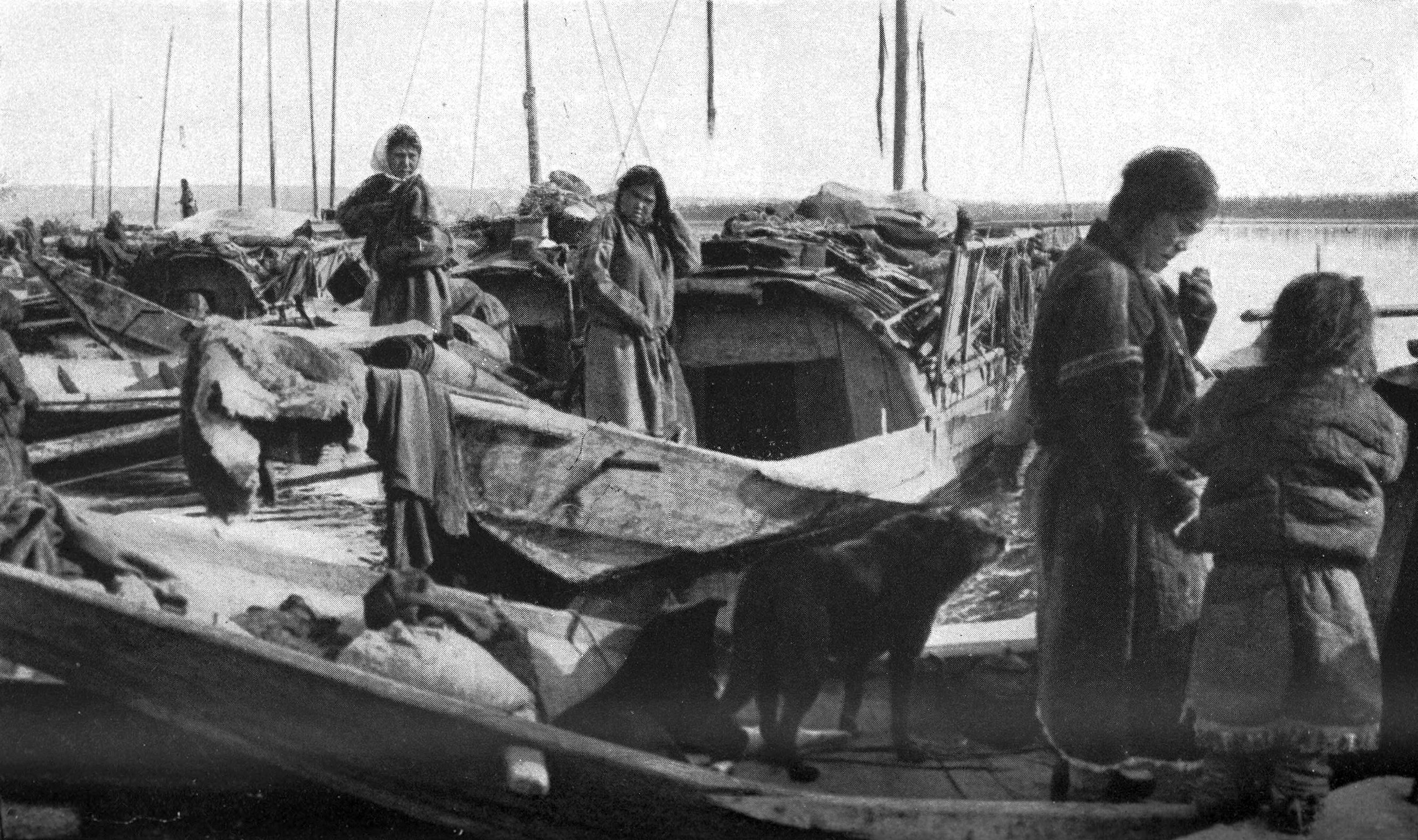 The houseboats of the Yenisei-Ostiaks